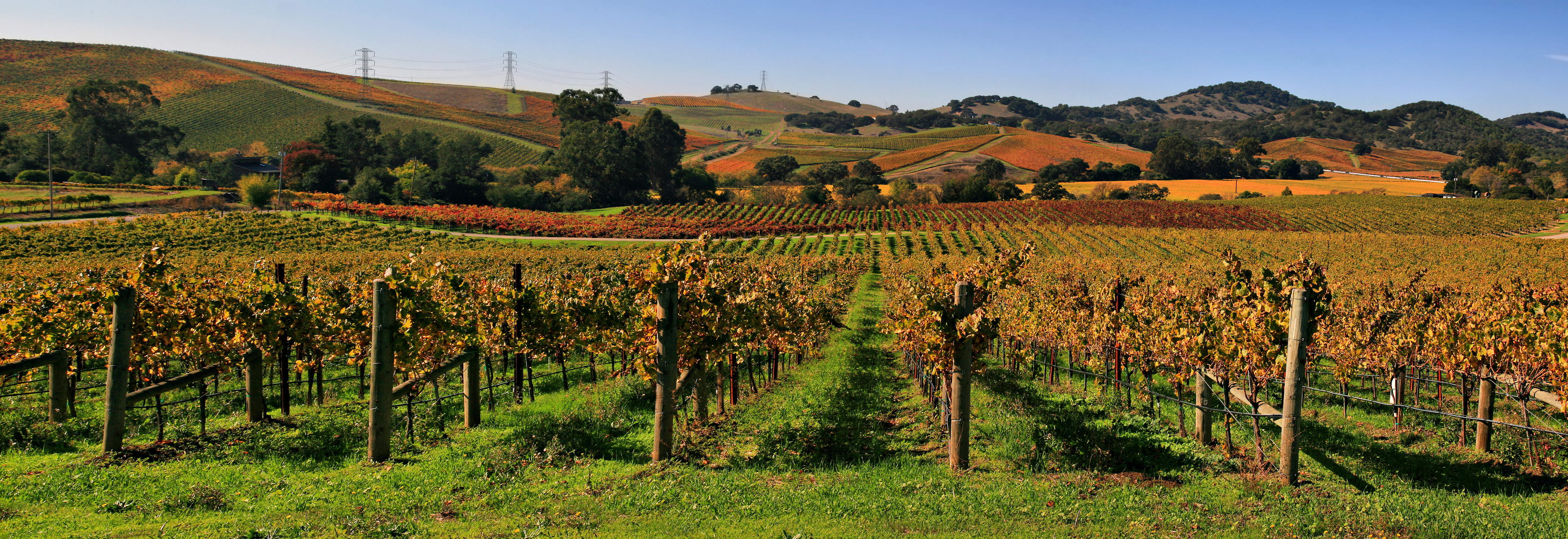 Vineyards in Napa Valley.